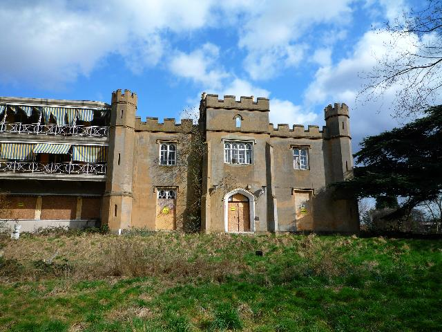 Twyford Abbey - western elevation Despite its name, Twyford Abbey was never an abbey at all. Twyford Abbey started life in the middle ages as the West Twyford manor house. It belonged to the lords of the manor of West Twyford who owned the surrounding land. By 1593 it was the only inhabited house in West Twyford, with a small private chapel.West Twyford manor house was partially demolished around 1715 and the chapel rebuilt around that time. In 1806 the manor was sold to Thomas Willan, a stagecoach proprietor of the Bull and Mouth Inn near Aldergate and owner of a large dairy farm in Marylebone Park (now Regent's Park). Willan wanted to turn the house into a 'Gothic' mansion. He engaged architect William Atkinson, a pupil of James Wyatt who had designed the Duke of Kent's 'palace' on castle Hill to designed an extension around the original house in a Gothic style. As a consequence, the genuine medieval moat was filled in. In keeping with the spirit of the age, Willan gave his house a romantic pseudo-monastic association, calling it 'Twyford Abbey'. In 1816 Twyford Abbey was described as 'striking and extremely fine'. This was the only building in the area, and soon the name Twyford Abbey was applied to the whole of West Twyford. In 1902 the Abbey was bought by the Alexian Brothers, who are a lay, apostolic Catholic Order who dedicate themselves primarily to live in the community and to participate in the ministry of healing. For almost 800 years, the Alexian Brothers have cared for the sick, the aged, the poor and the dying. The Alexian Brothers converted Twyford Abbey into a nursing home. The Adjacent St. Mary's church, disused at the time, was re-opened for weekly services in 1907. Over the years, the Alexian Brothers enlarged and changed the house several times. The nursing home closed in 1988 and as a result the Abbey now appears to be neglected. Notes attributable to: Brent Heritage website